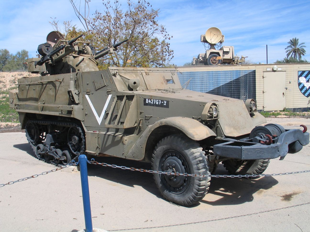 Description: M3 TCM-20 halftrack at Muzeyon Heyl ha-Avir, Hatzerim, Israel. 2006. Source: Photo by me, User:Bukvoed.